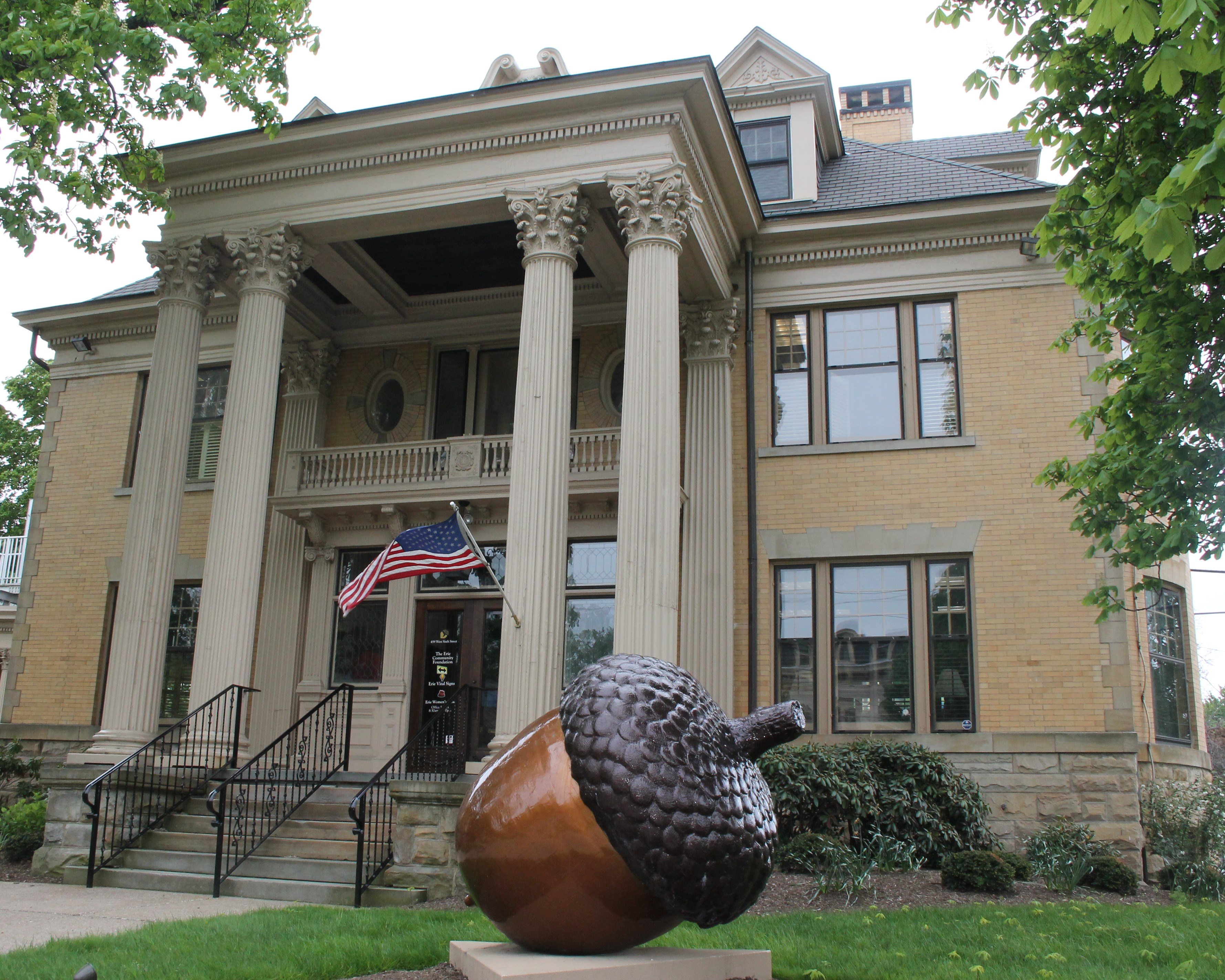 459 West Sixth Street, Erie, PA 16507